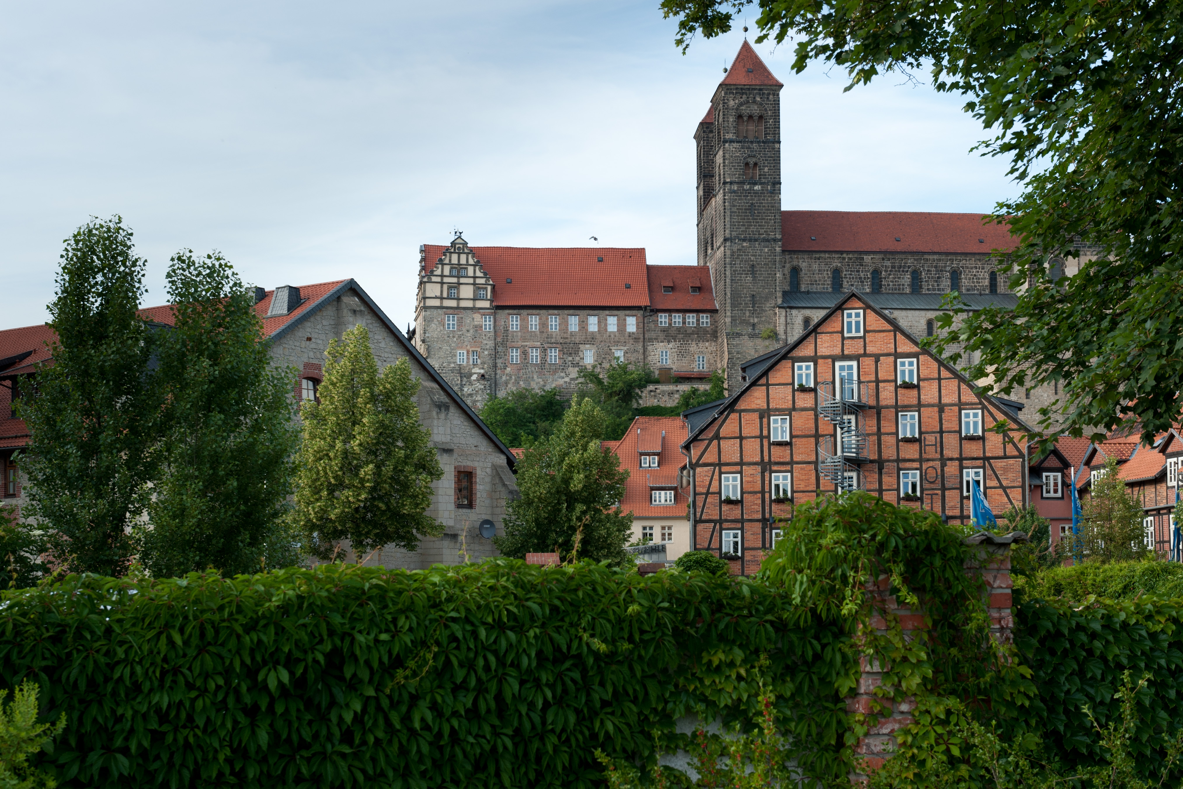 Schlossmühle (right of the middle). view to north: Burgberg with Quedlinburg Abbey